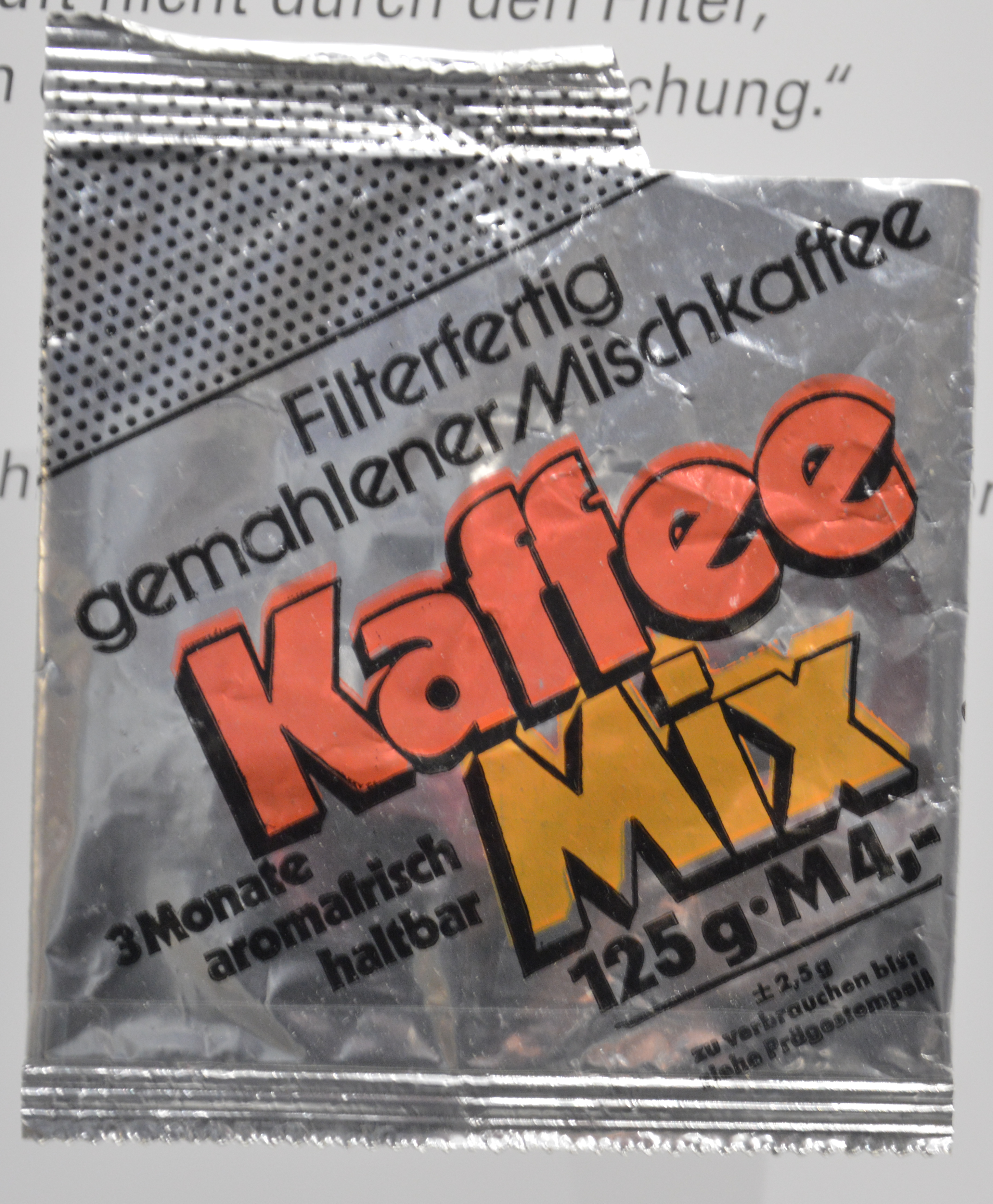 A package of "Kaffee Mix" (51% coffee, 49% other) produced in East Germany, on display as part of the "Alltag in der DDR" (Everyday life in the GDR) exhibit of the Museum in the Kulturbrauerei, Berlin. I submit that the art on the packaging is too simple to copyright.